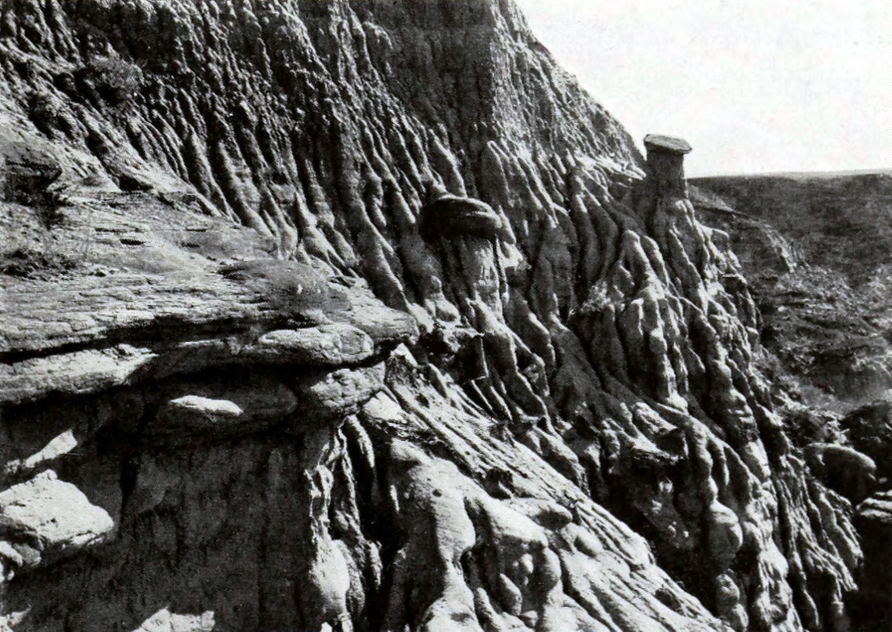 Excavation of Ankylosaurus magniventris skull AMNH 5214 (centre, above the pick) by the Red Deer River, 1910.